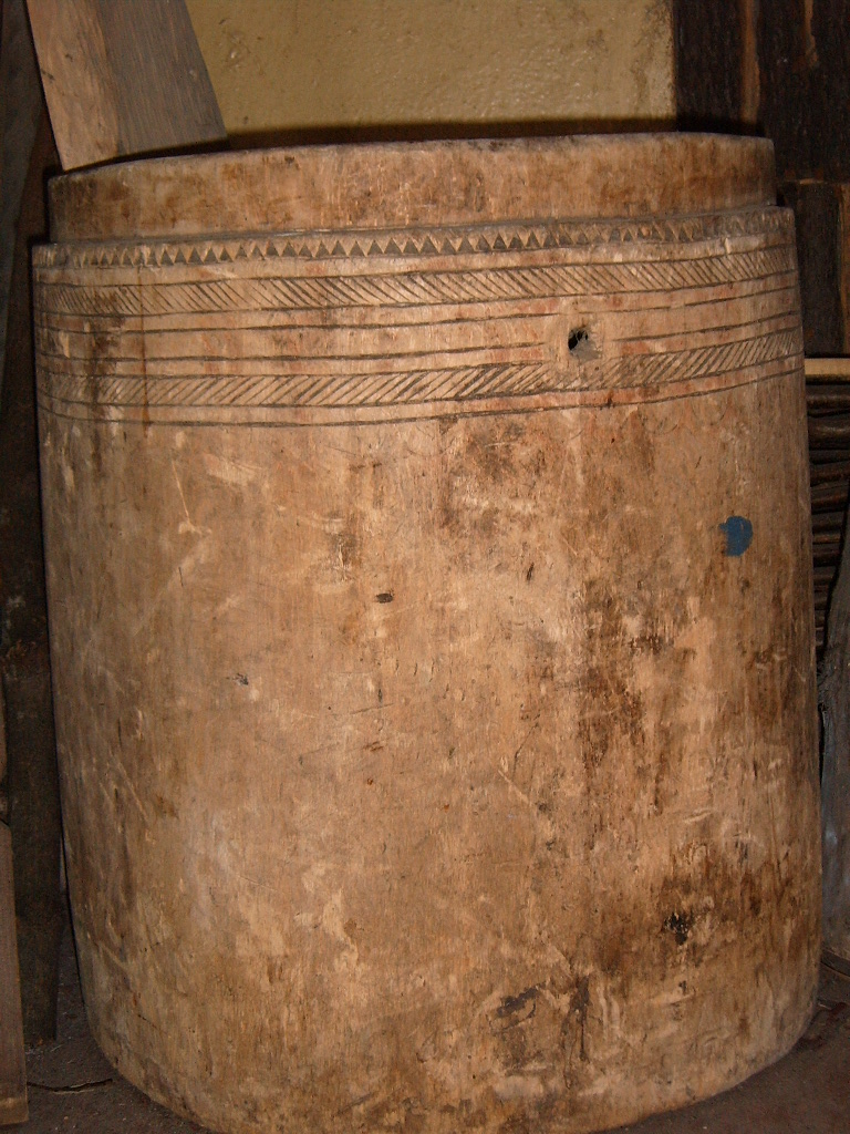 Erzya tubing (erz. Erzyan parj). Collection of the Museum Ethno-house of Vladimir Romashkin (Podlesnaya Tavla village, Kochkurovsky district, Mordovia)